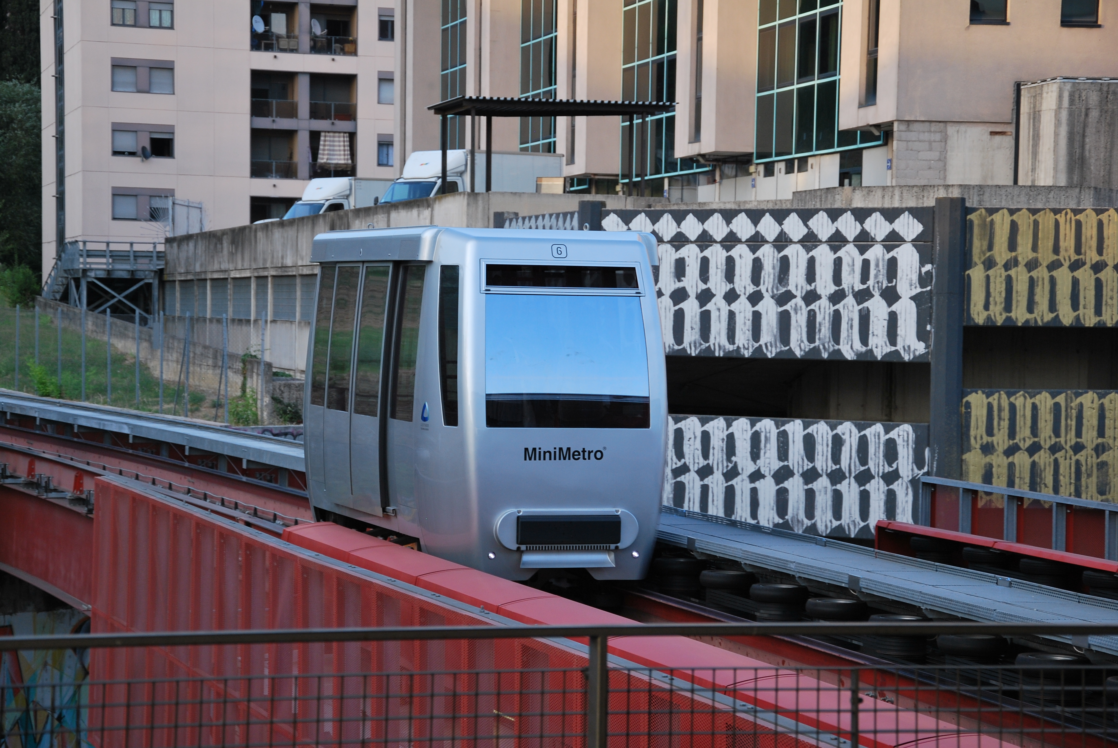 Minimetro in Perugia